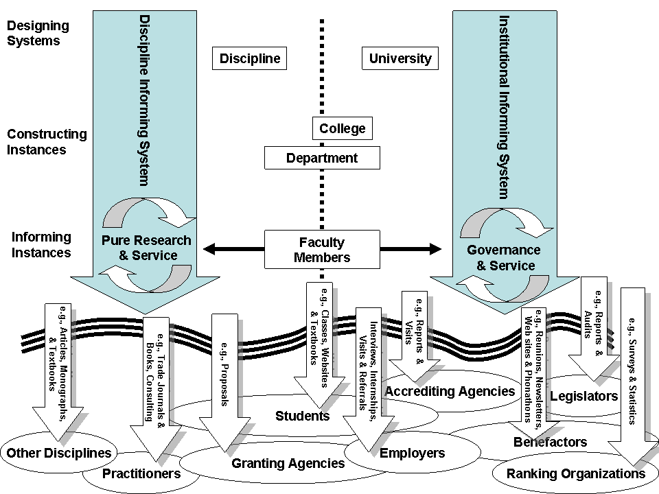 Illustrates informing system levels and parallel systems (discipline and institution) sharing clients